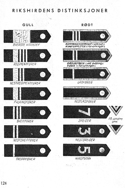 Uniforms and flags of the Nasjonal Samling (NS), Vidkun Qusiling's fascist party in Norway 1933–1945. Cropped images from a low-resolution PDF of NS årbok 1944 ( NS Yearbook 1944) published by "propaganda leadership" and printed in Gjøvik, Norway 1943: (NS was closed down in May 1945. No illustrator credited. In 2015 it’s 70 years after the release and the content of the book is believed to fall into the open by Norwegian copyright laws.)